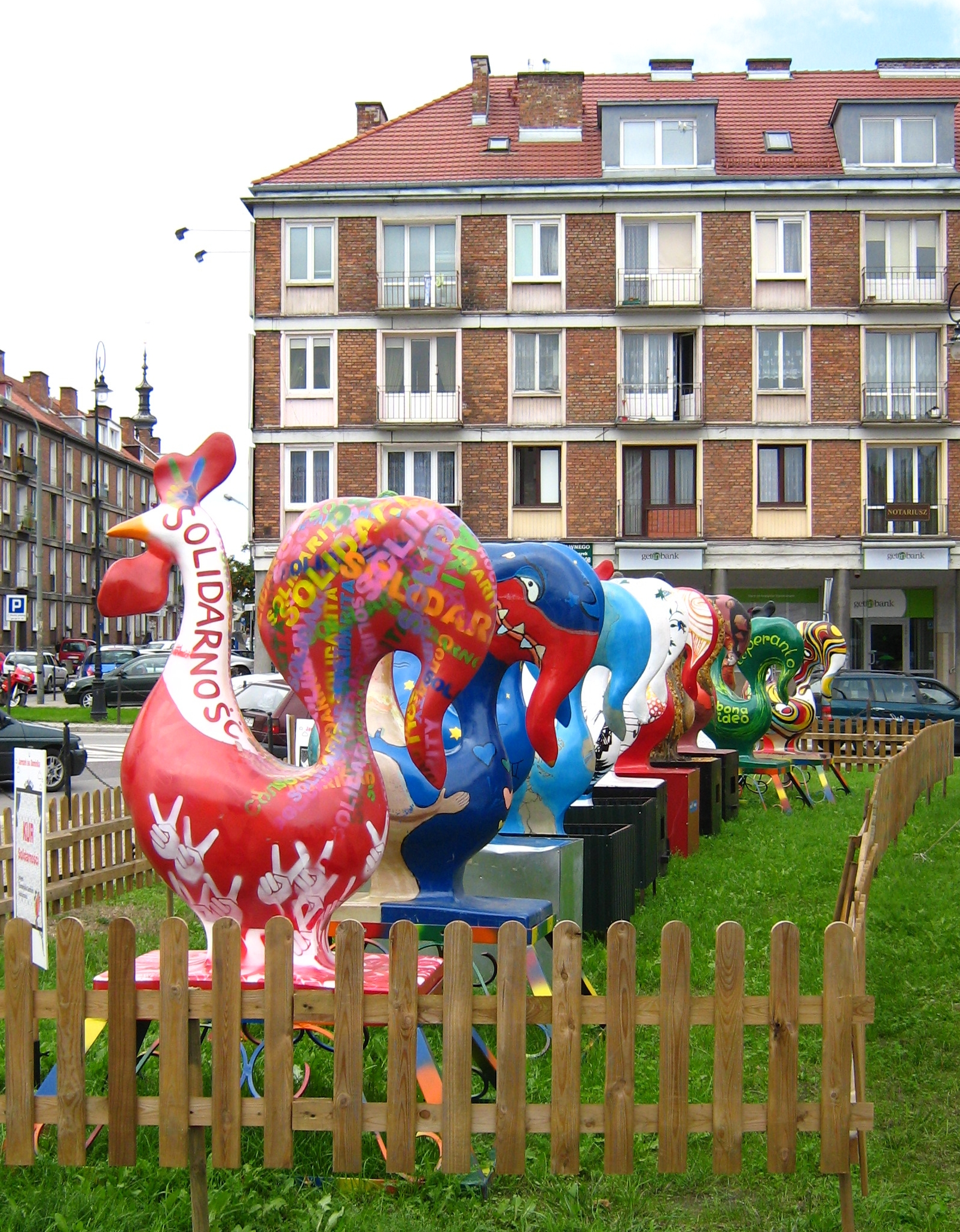 Roosters – the symbols of St. Dominic Fair in Gddańsk.